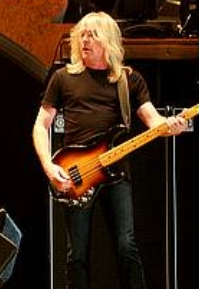 Cliff Williams at the Tacoma Dome in Tacoma, Washington, November 30, 2008.